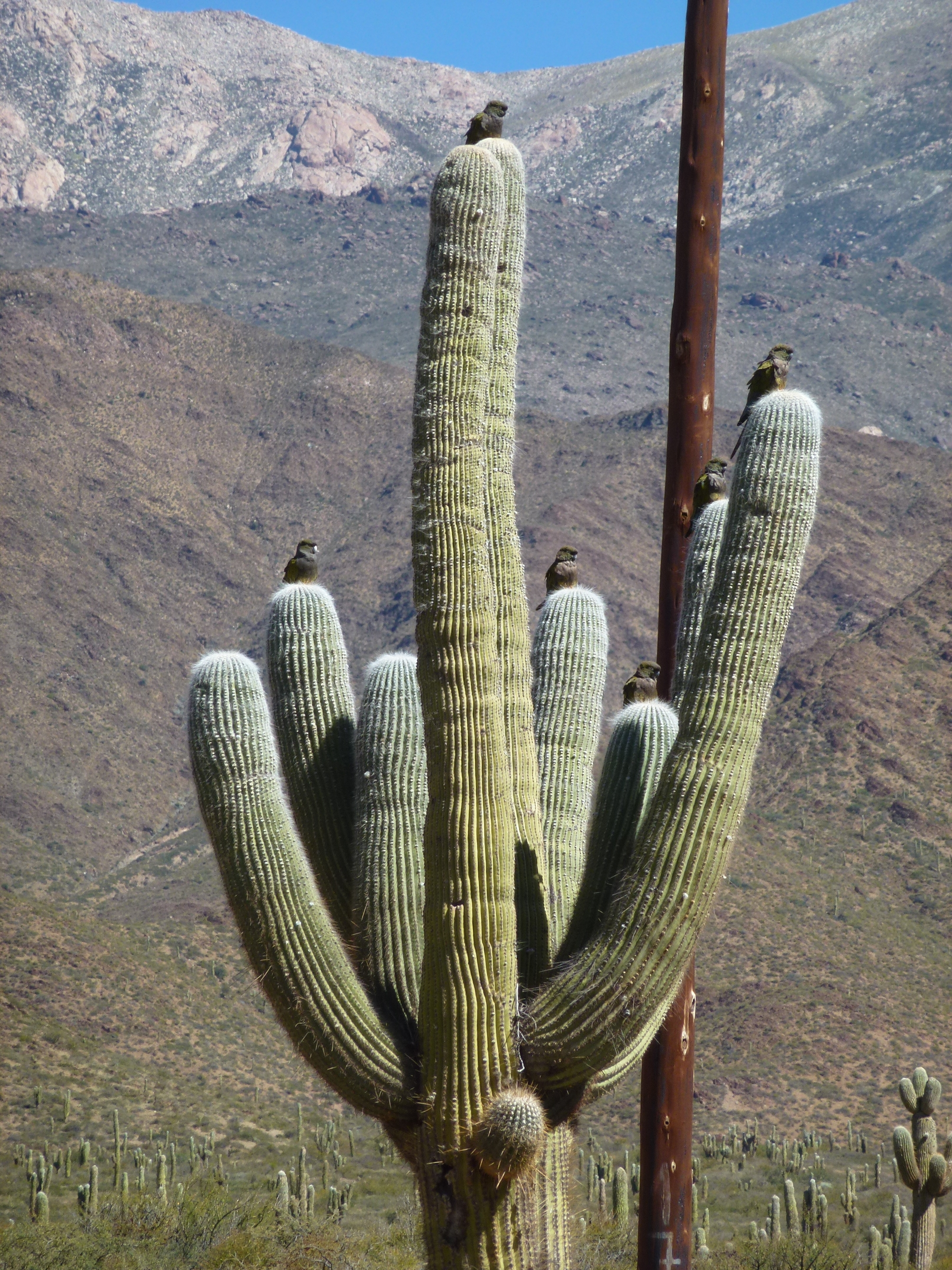 Burrowing Parrots perching on a large cactus in Valles Calchaquies, Salta, Argentina.